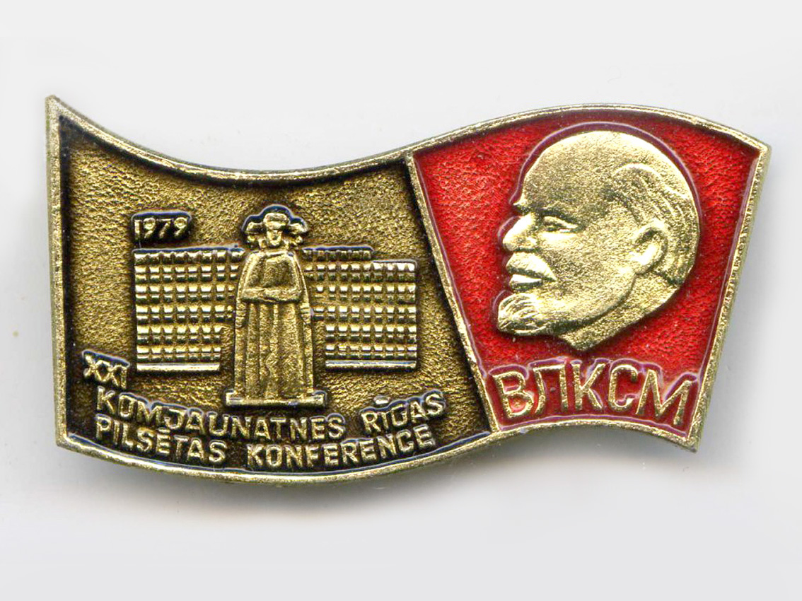 Badge. 21 Komsomol Conference. Riga. Latvia. 1979.